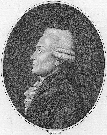 French politician Emmanuel-Marie-Michel-Philippe Fréteau de Saint-Just (1745-1794)